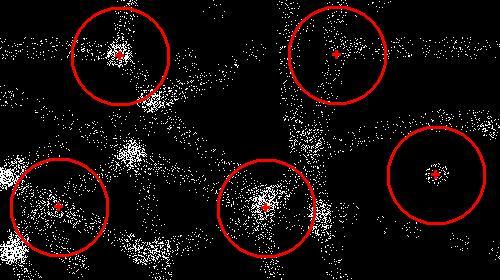 level I Multiverse, in the Universe, there are many observable areas(The observable areas are marked as red circled with a red cross on ther center)